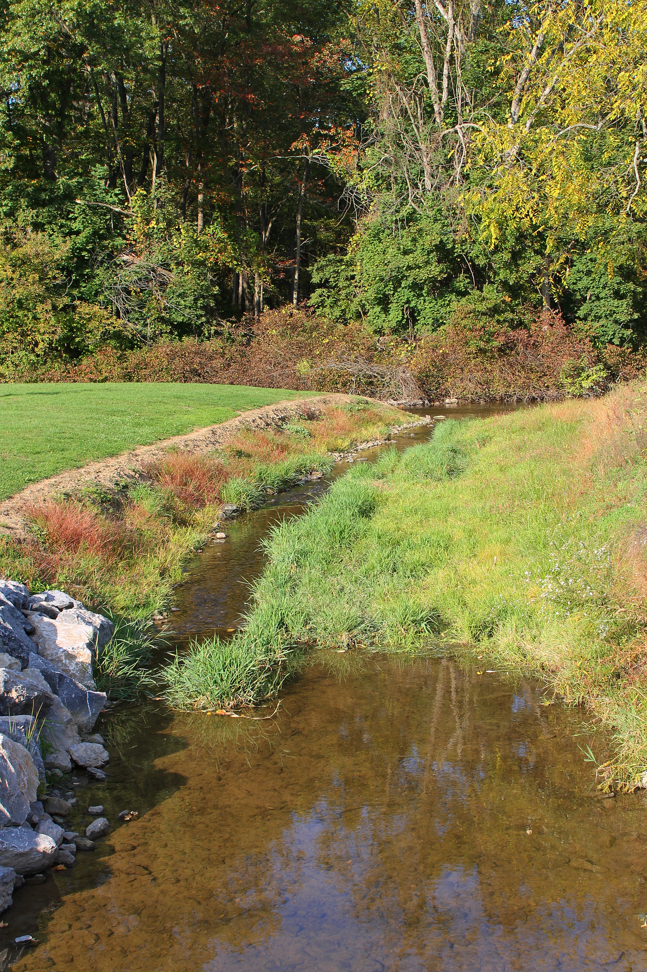 Muddy Run looking downstream near its mouth. Spruce Run can be seen in the background.